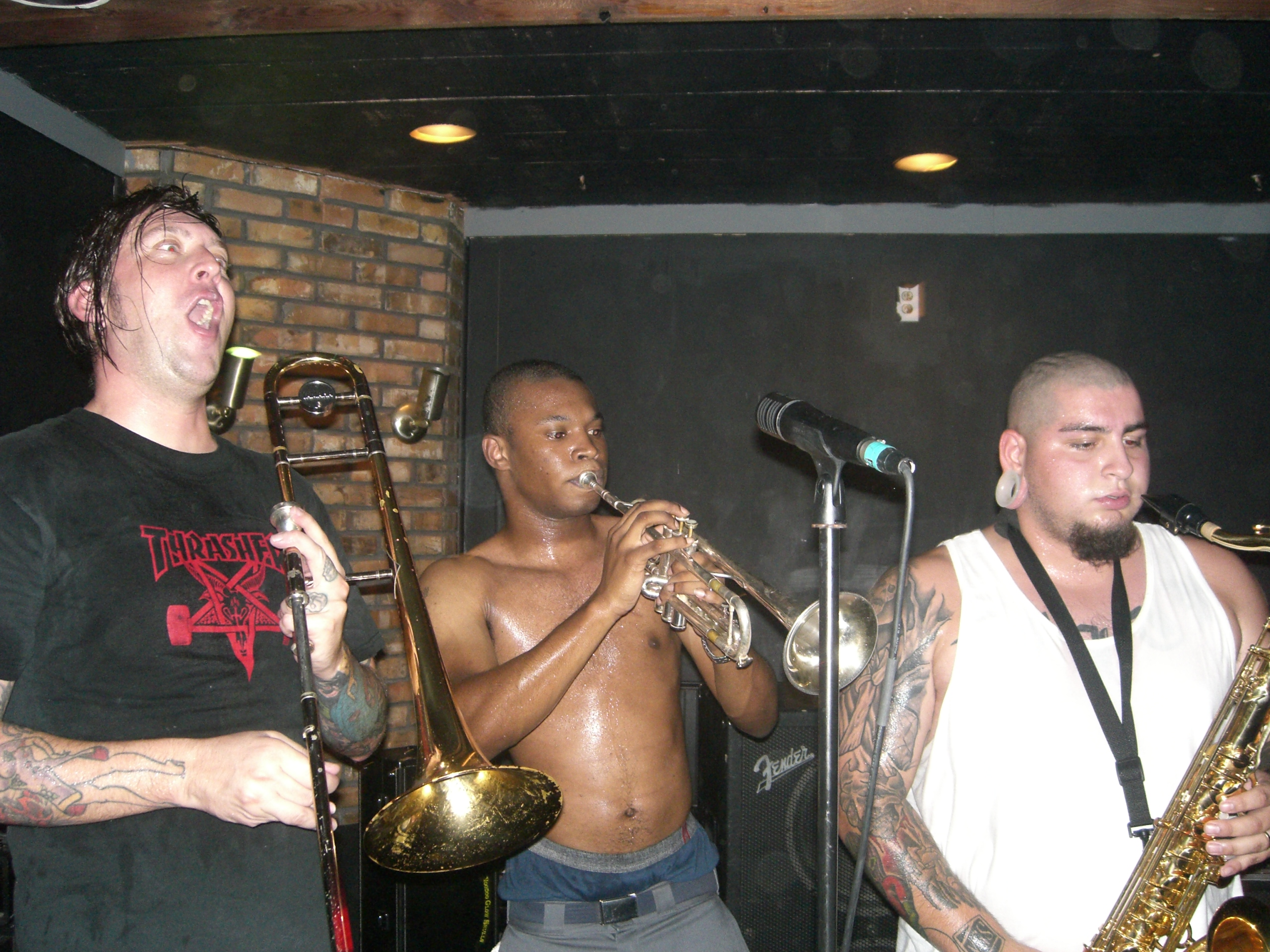 Voodoo Glow Skulls in Metairie, Louisiana